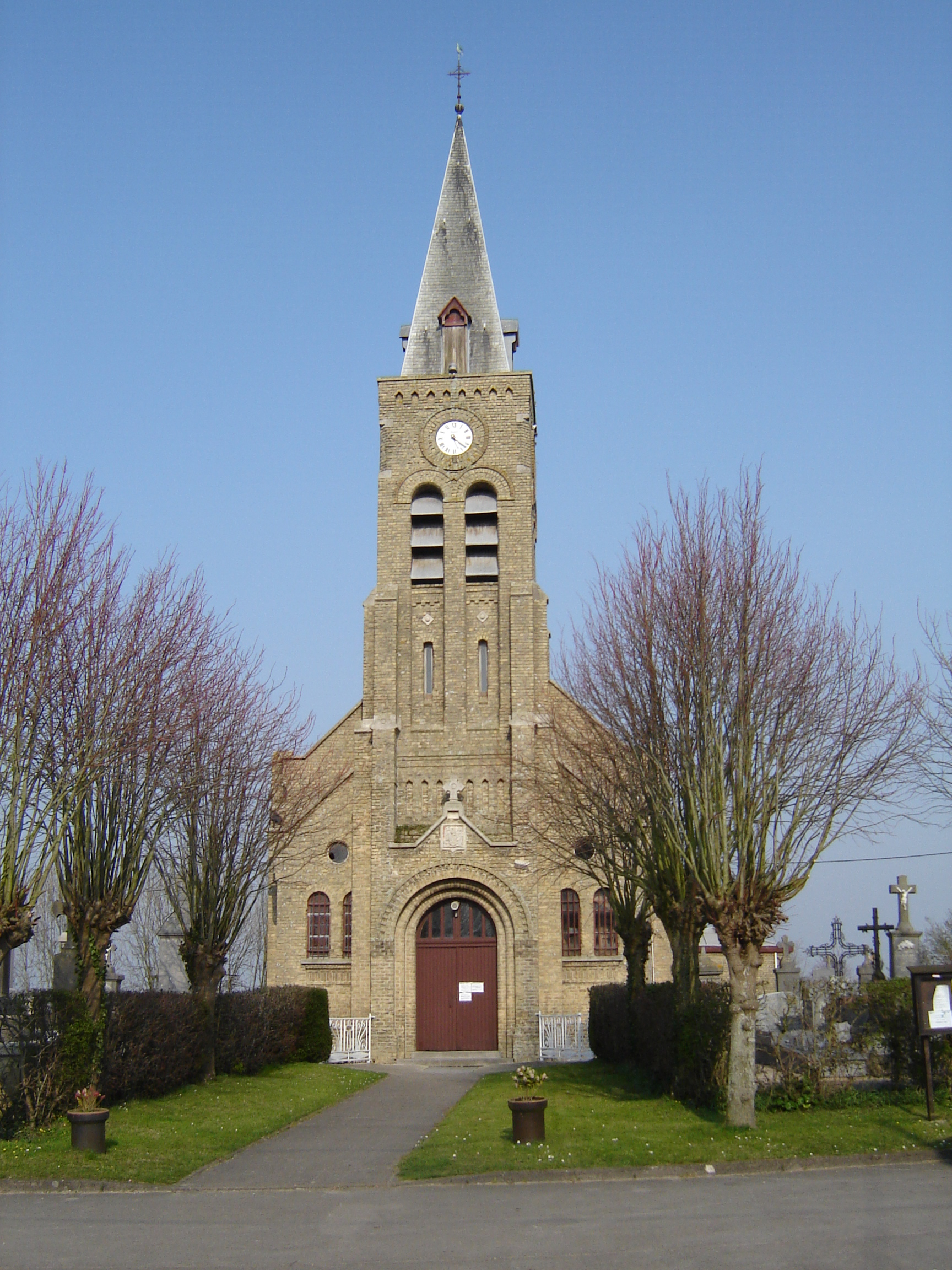 Eglise Saint-Wandrille in Drincham, Nord, Nord-Pas-de-Calais, France